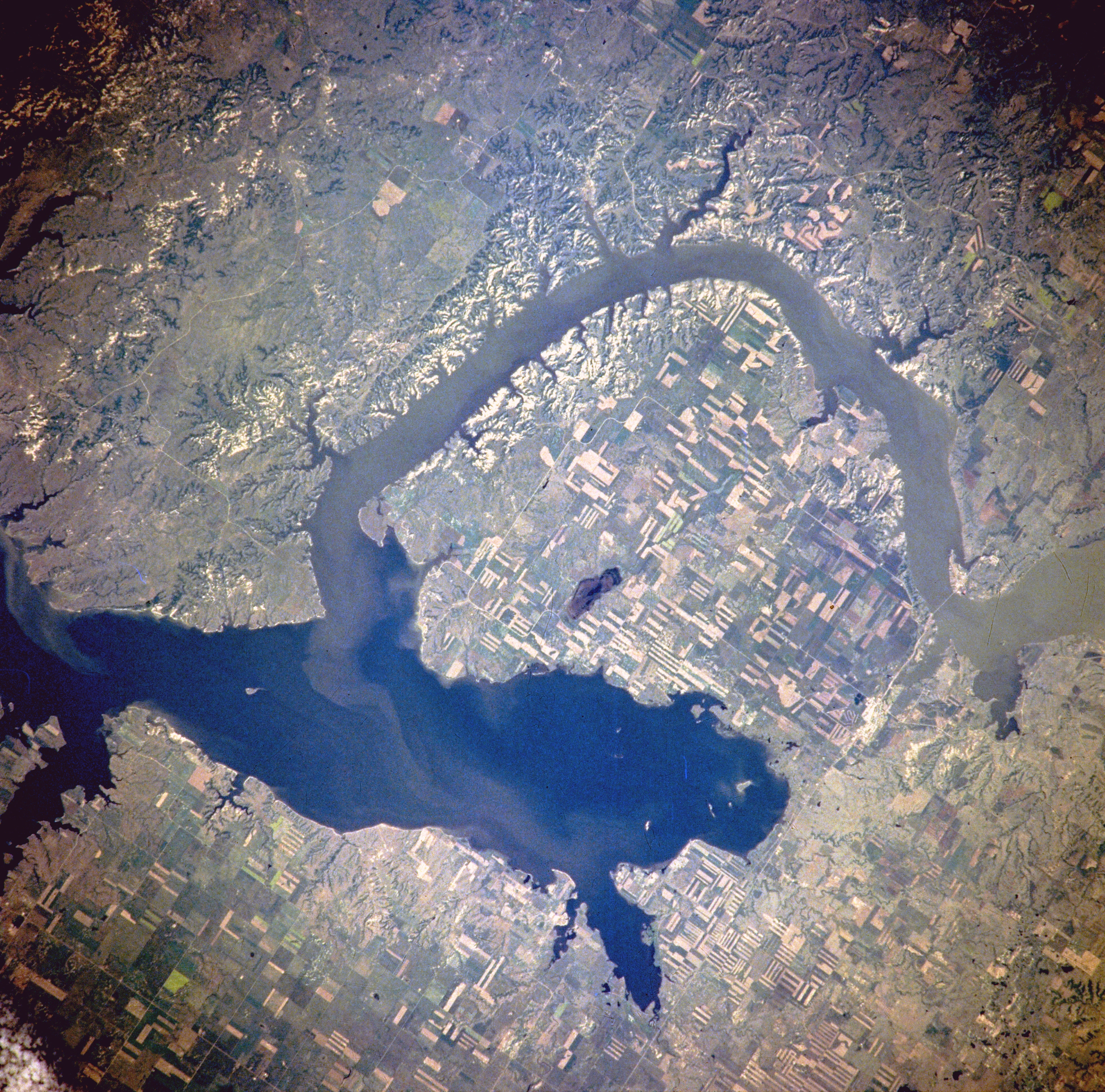 Van Hook Arm of Lake Sakakawea, North Dakota, United States - Satellite image, July 1996 The image description can be found here. The bridge on the right holds North Dakota Highway 23. North is to the right side of the image.[1]